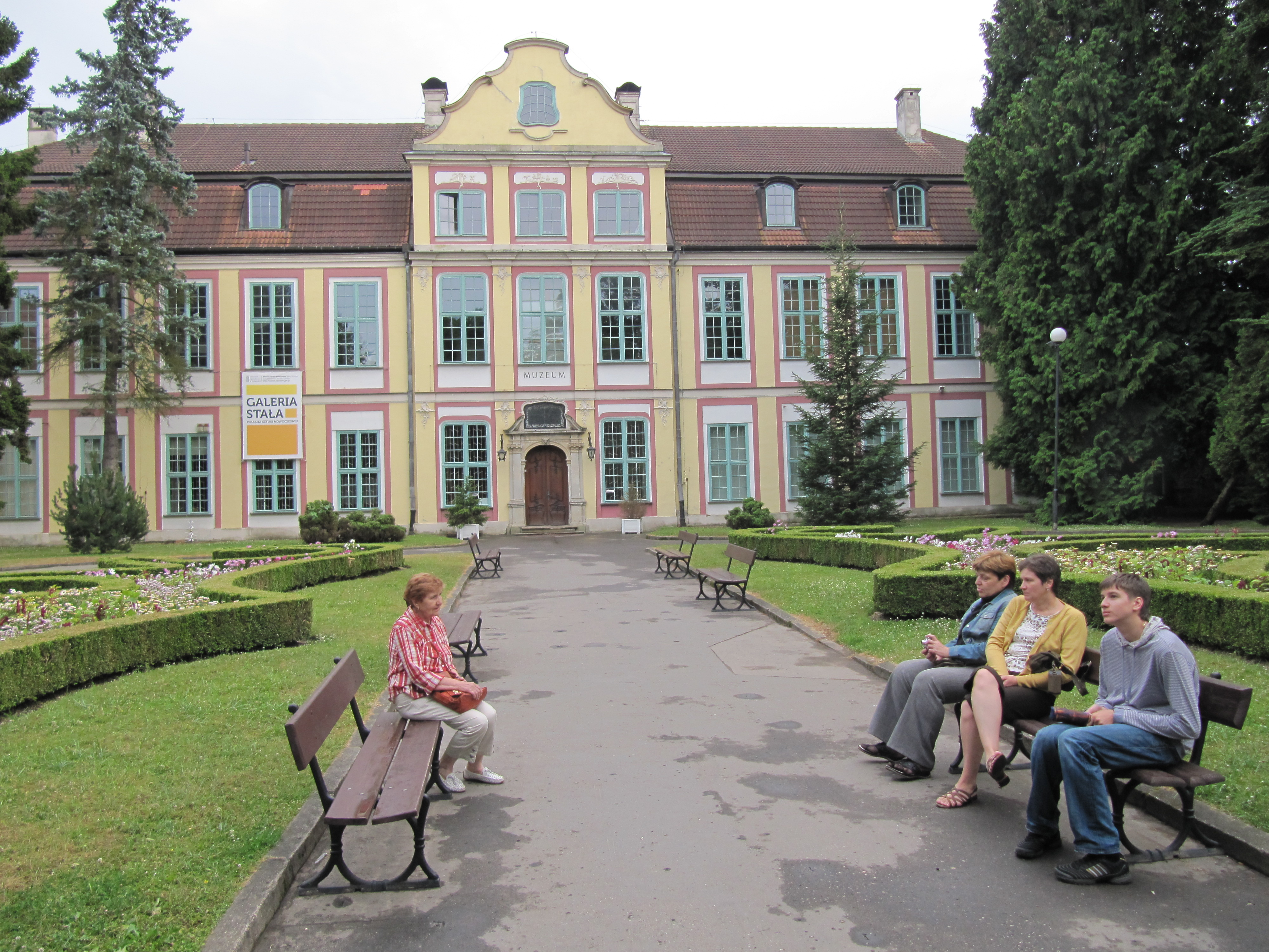 Oliwa_Palace_in_Gdańsk